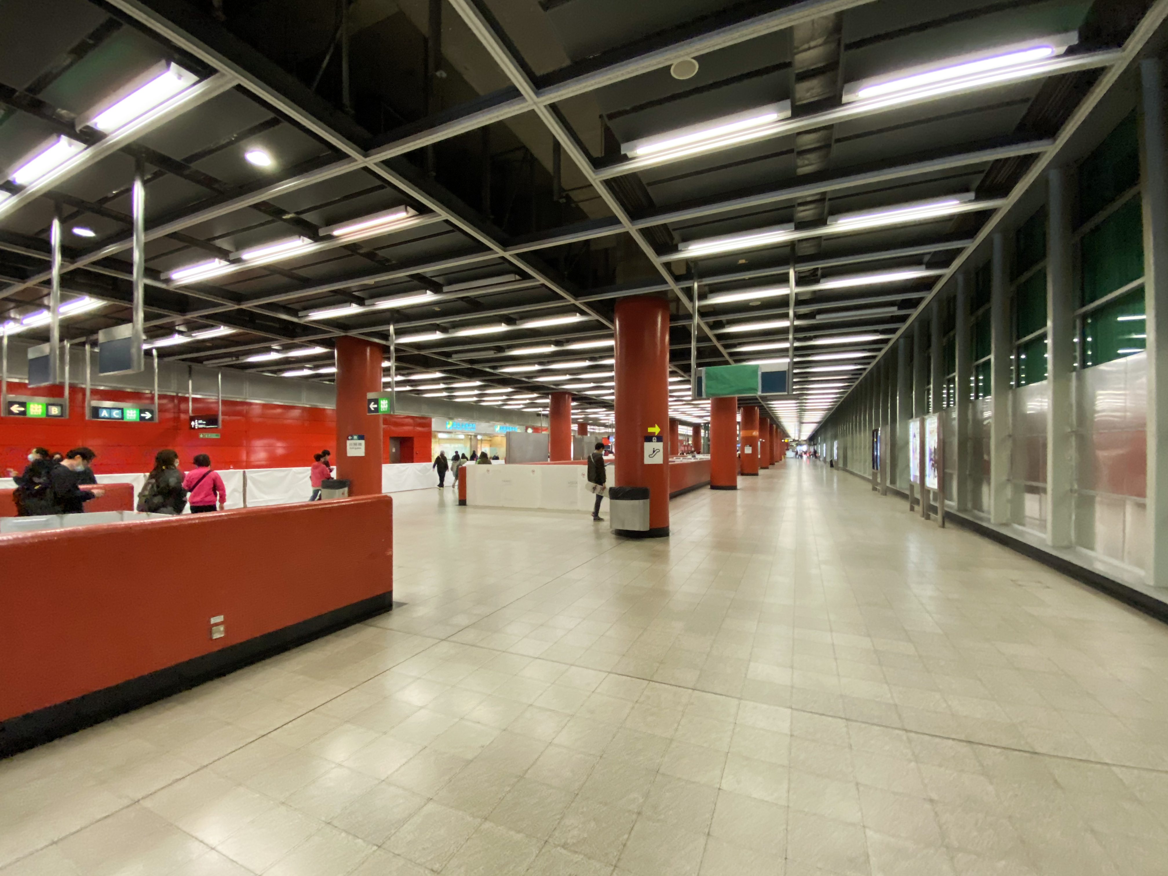 Tsang Kwan O Station Concourse